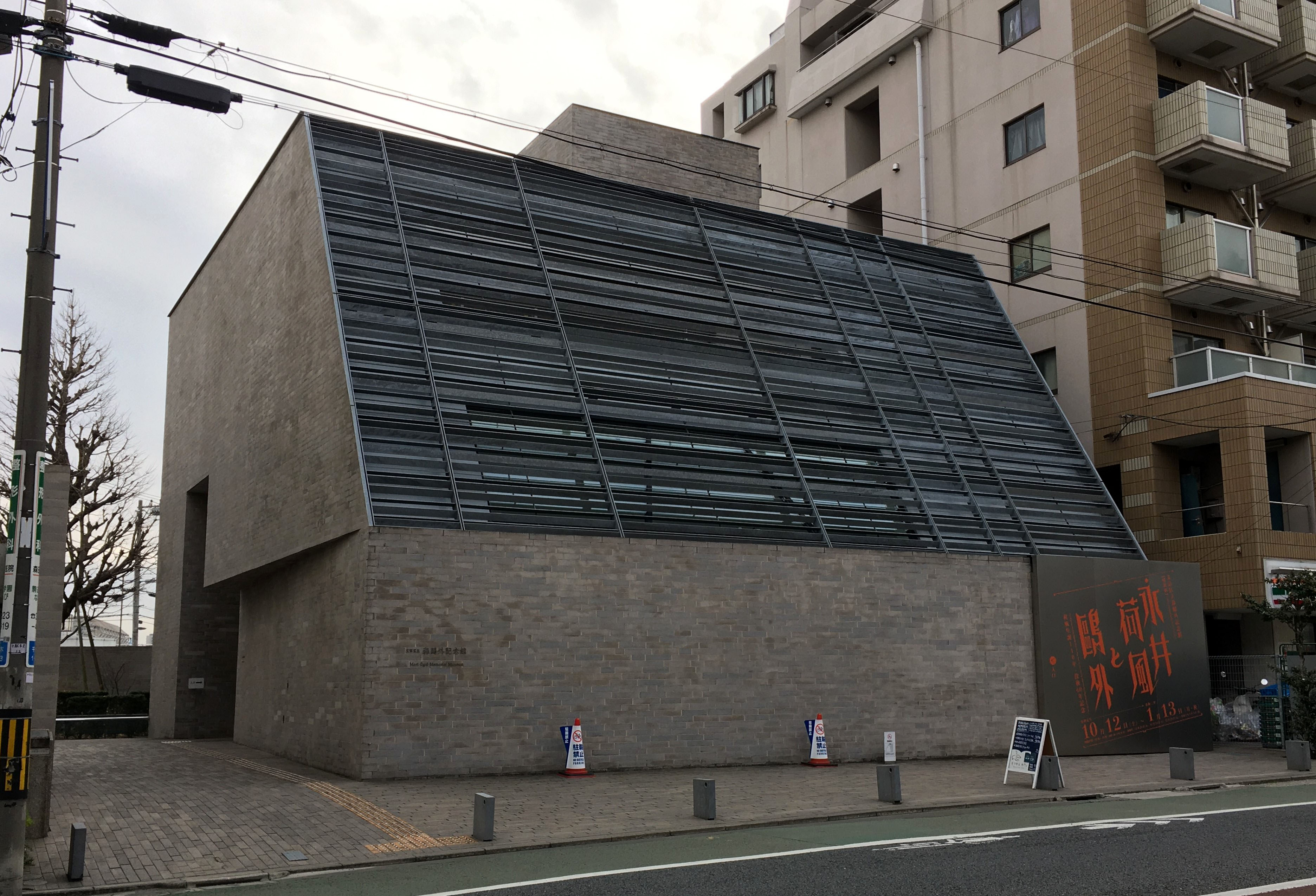 Mori Ogai Momorial Museum (Tokyo, Japan)